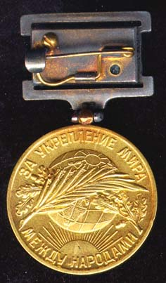 Lenin Peace Medal (Back)